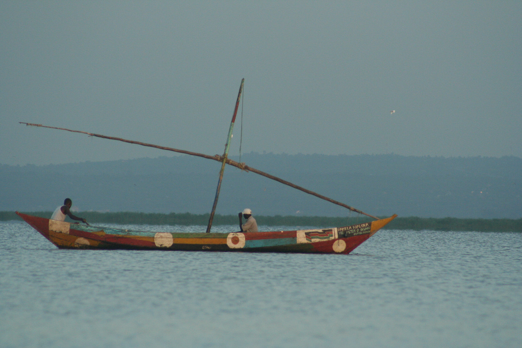 Luo People Fishing in Lake Victoria